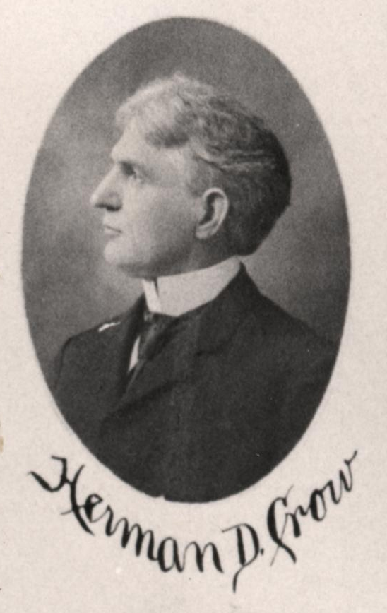 Sen HD Crow